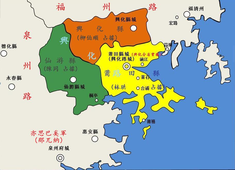 The situation of Hsing-hua in 1362 during Islamic Ispah Rebellion or Persian Sepoy Rebellion — in Fukien (Fujian), during the Yuan Dynasty. Much of Putian County was controlled by Lin Gong (林珙), Xianyou County was controlled by Chen Tong (陳同), Hsing-hua County was controlled by Liu Bo-shun (柳伯順), and the Hsing-hua provincial government only controlled the town of Putian and its vicinity.